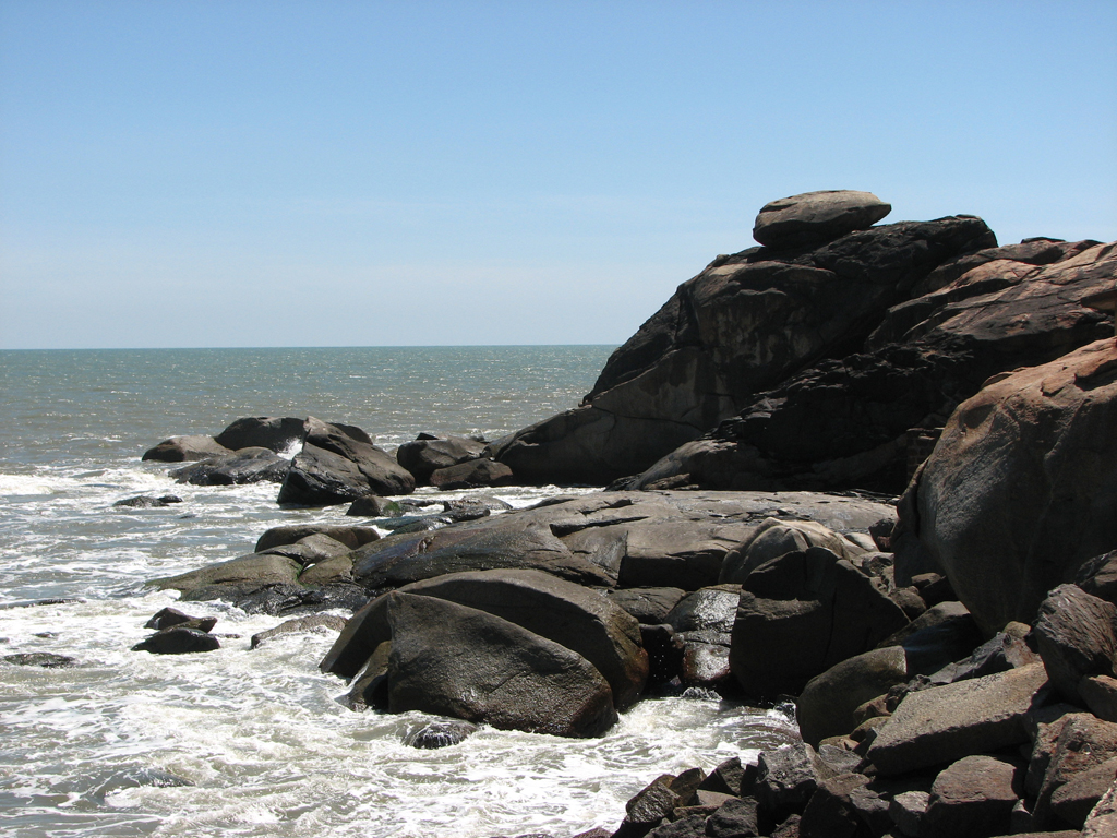 Nilesh Sutar